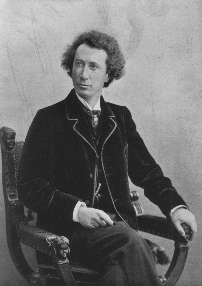 The pianist Emil von Sauer in 1902.